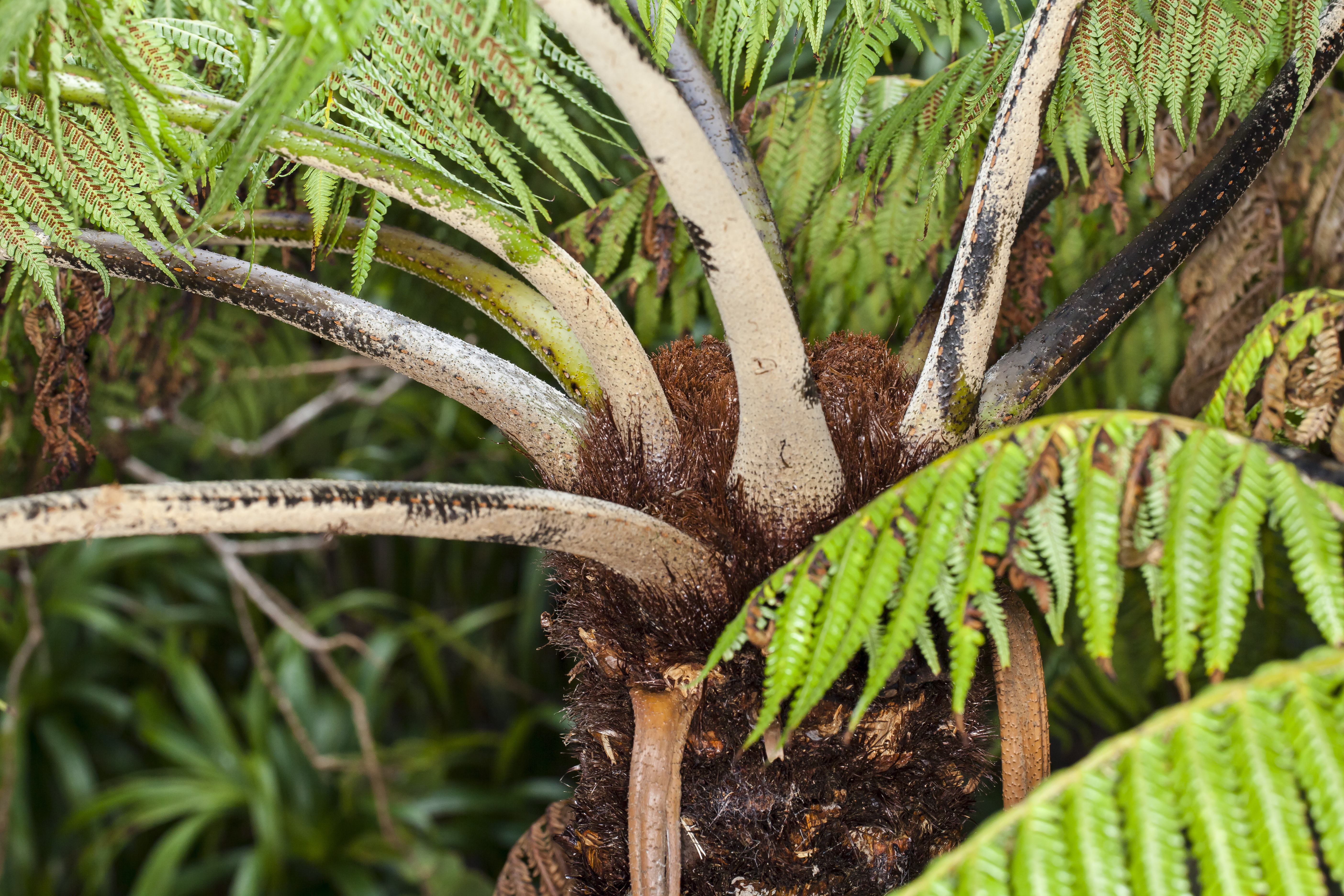 Cyathea macarthurii. This is the commonest of the four Lord Howe tree ferns species, seen here near Goat House Cave. It is easy to recognise from the slightly drooping aspect of the pinnae.